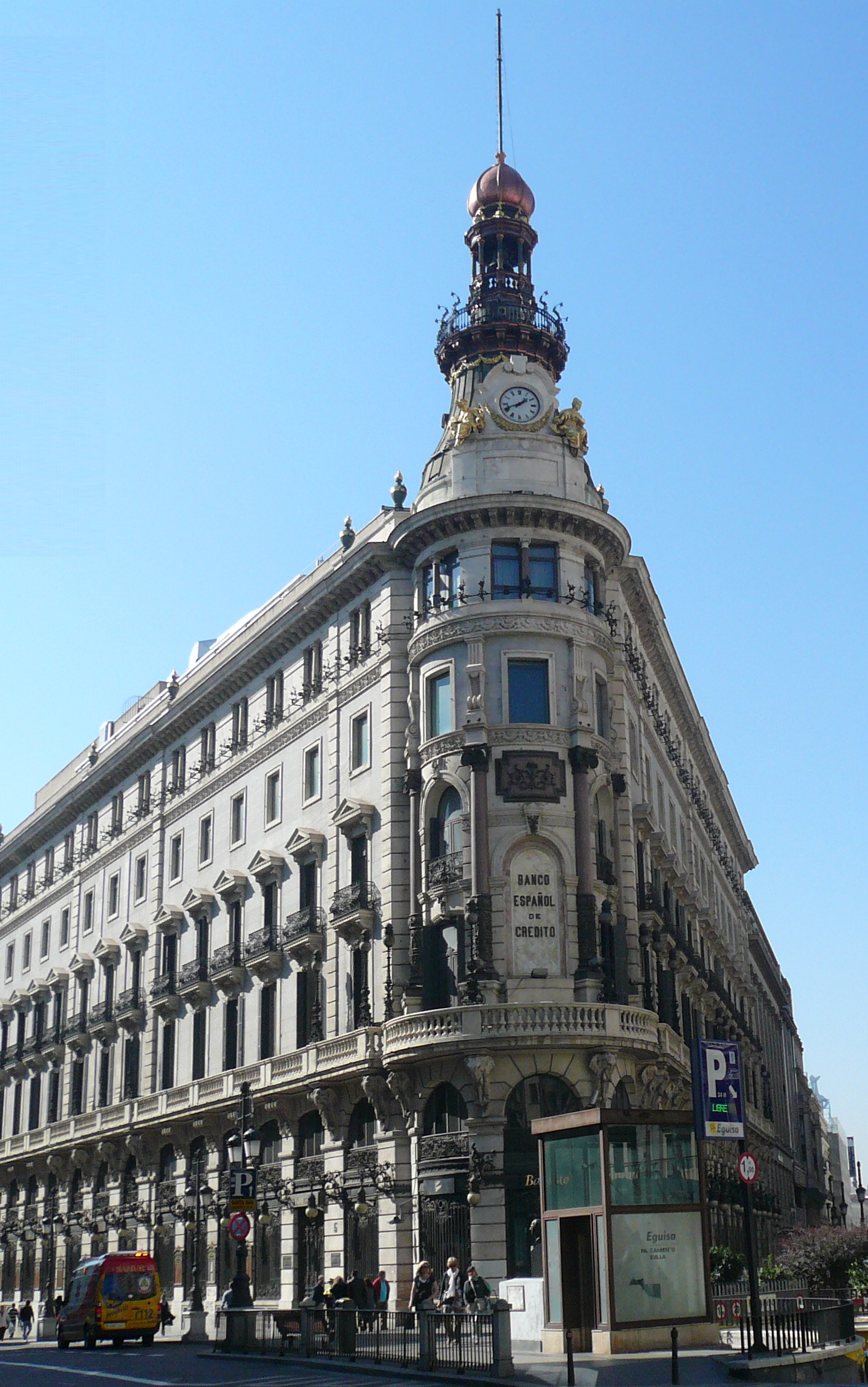 Banco Español de Crédito, Madrid, Spain